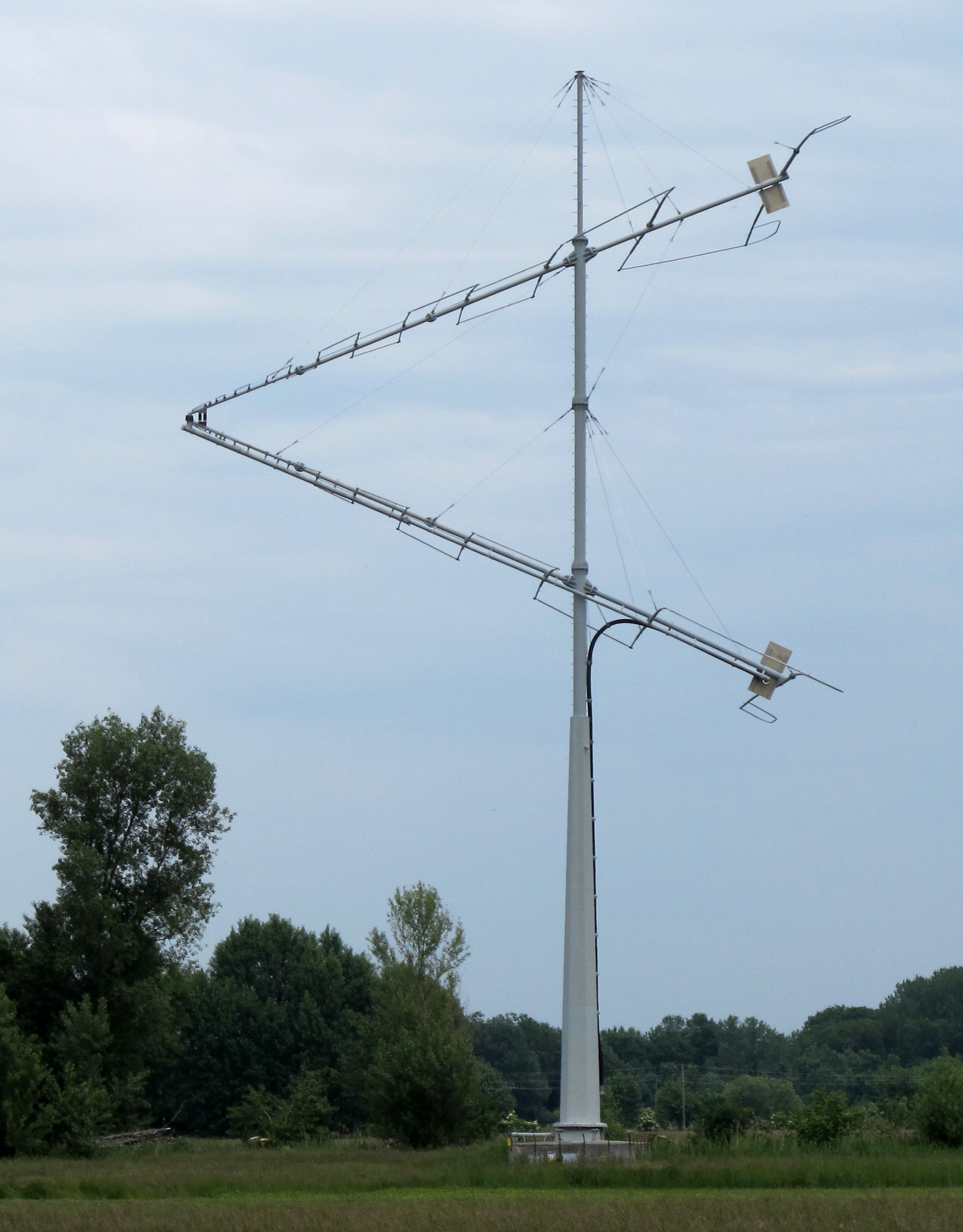 A shortwave log-periodic antenna at the Moosbrunn shortwave transmitting station of the Austrian Broadcasting Service (Österreichischen Rundfunksender GmbH, ORS), Moosbrunn, Austria. A log-periodic antenna is a high-gain broadband directional antenna based on dipole elements. It consists of two V-shaped elements each consisting of a wire bent into a zigzag shape. Each wire element functions as 14 dipoles of graduated lengths, fed in series. It's usable bandwidth extends from 49 m (6.1 MHz) to 13 m (23 MHz).